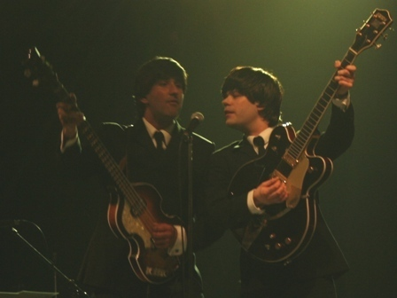 The Backwards performing in Kosice, Slovakia (light version)